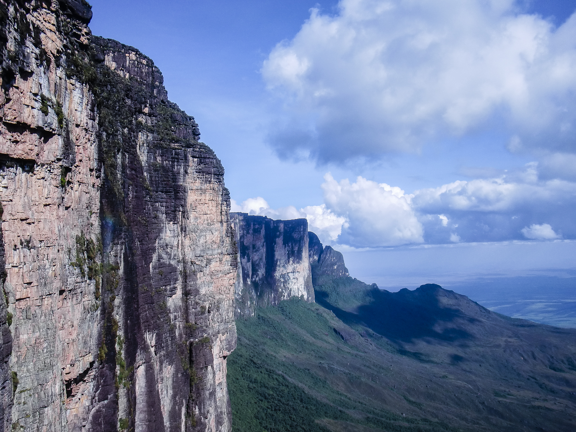 Roraima, Bolívar, Venezuela